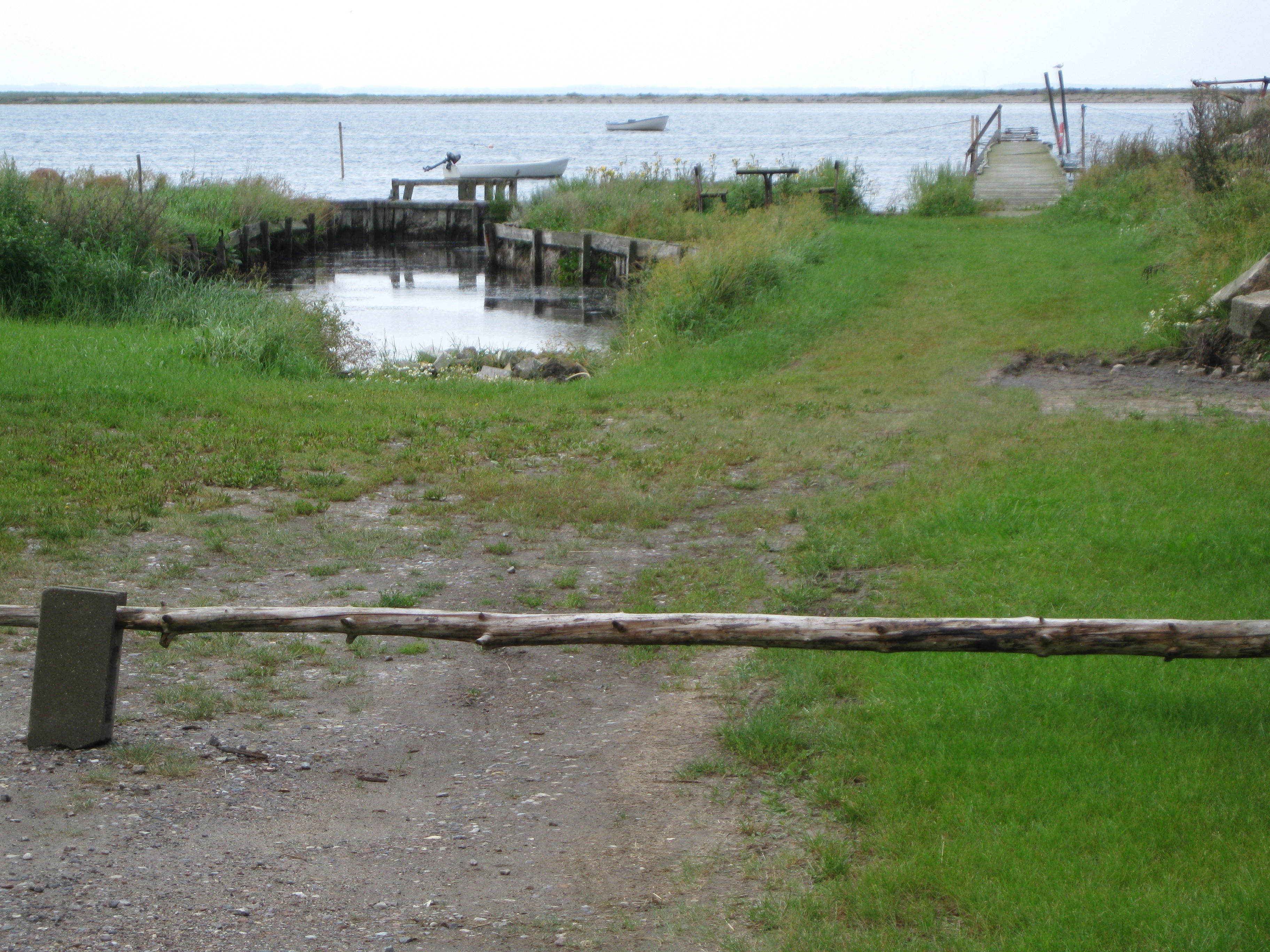 Small place for boats at the coast of "Torslunde". The coast place is located on the north-western part of the island Lolland in east Denmark.